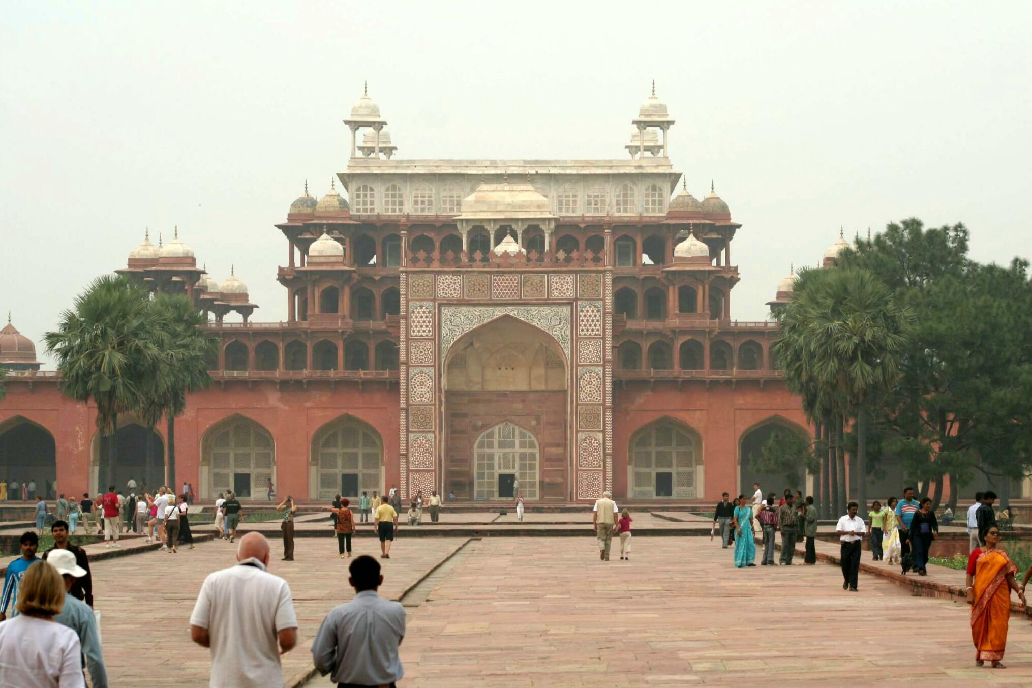 Akbar's Tomb at Sikandra (Uttar Pradesh, India)